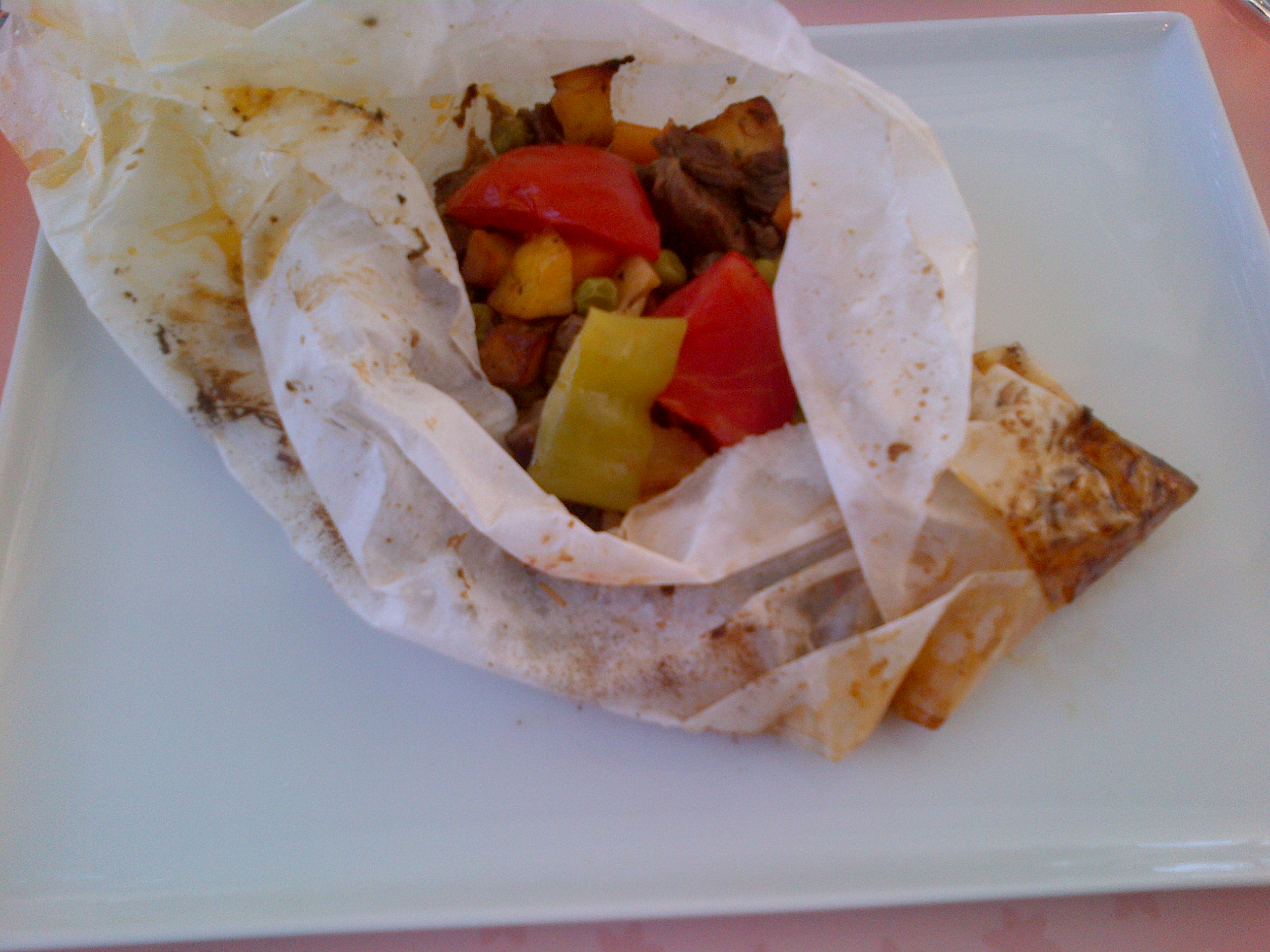 "Kağıt kebabı" is a veal and vegetables dish from the Turkish cuisine, made in the oven.